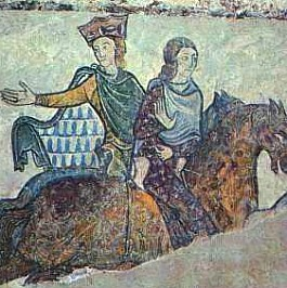 Detail from a mural in Chapelle Sainte-Radegonde de Chinon (Chapel of Saint Radegund in Chinon, France) possibly depicting Eleanor of Aquitaine and her son Henry.